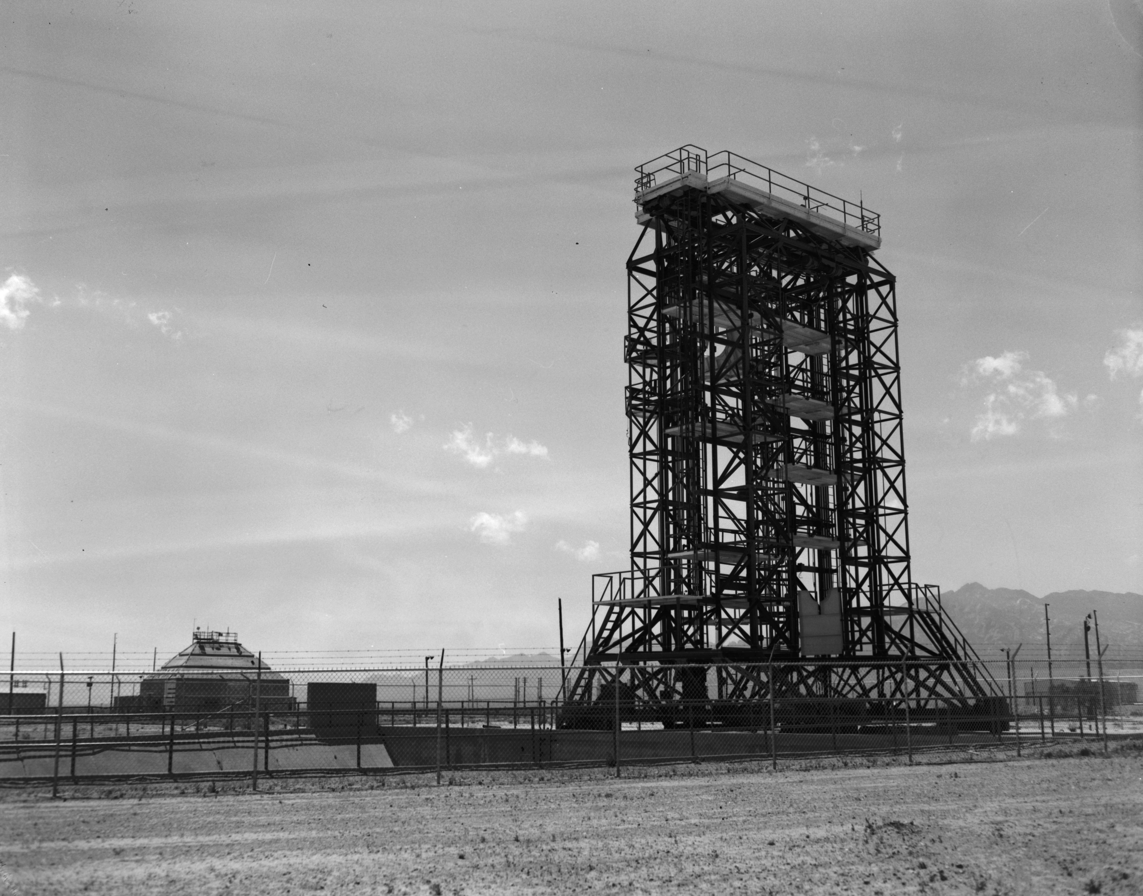 White Sands Missile Range, V-2 Rocket Facilities, Near Headquarters Area, White Sands vicinity (Dona Ana County, New Mexico)